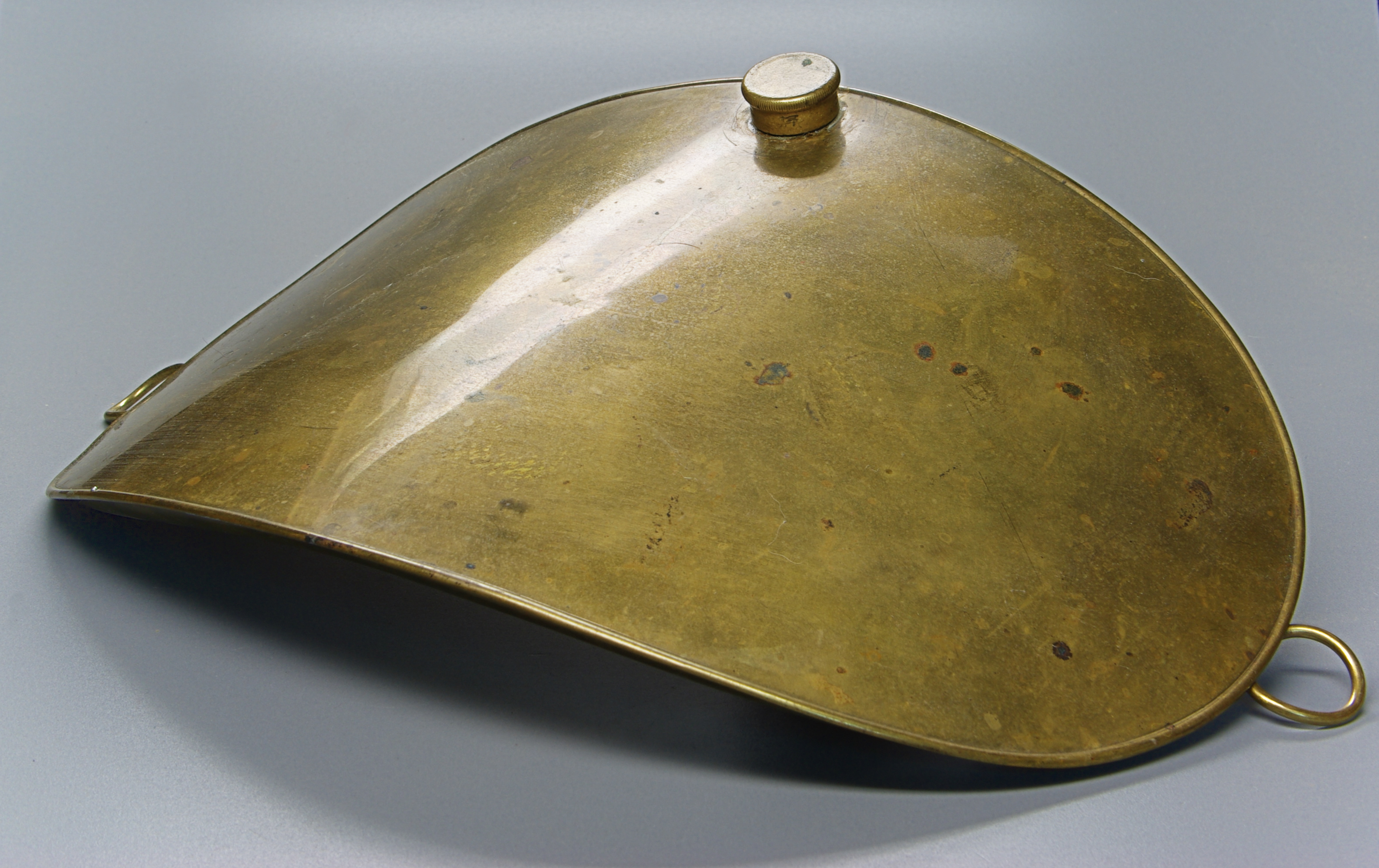 Old hot-water bottle